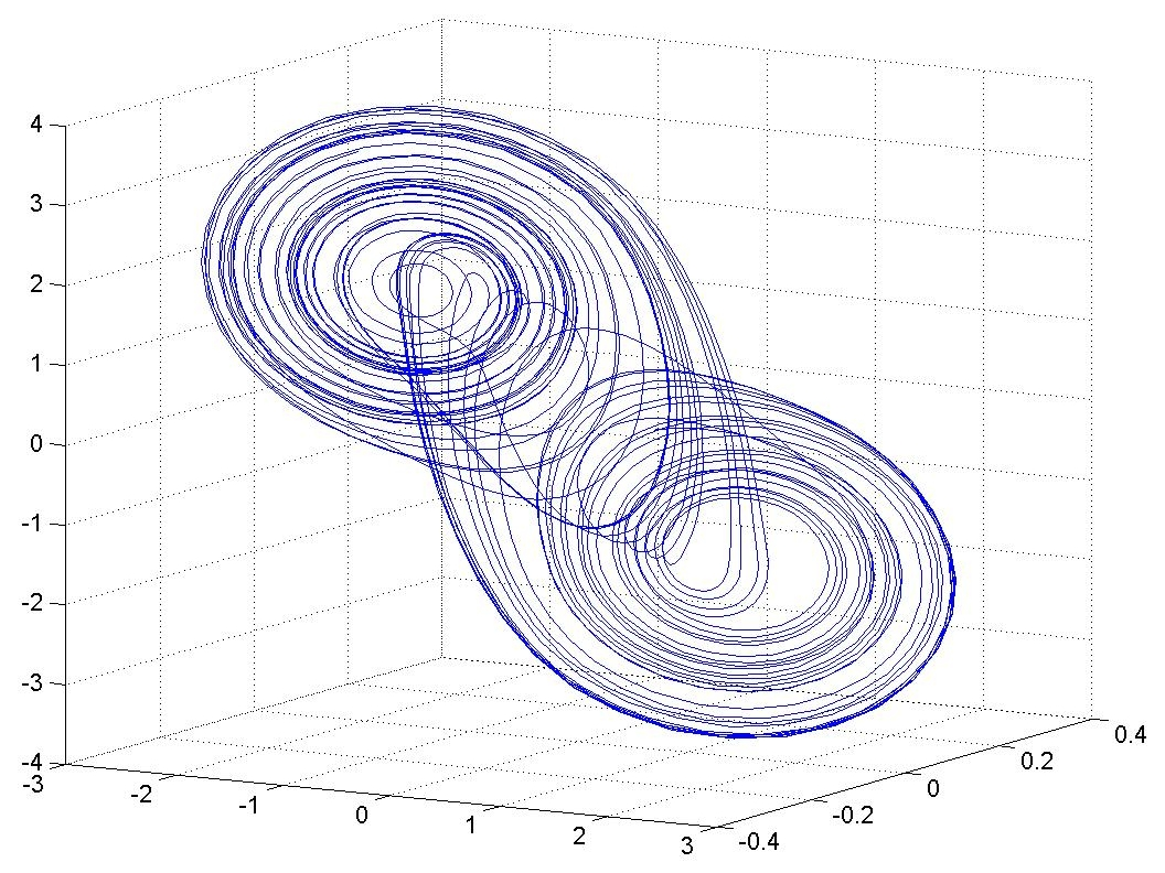 Double scroll attractor from a Matlab simulation of Chua's circuit, taken after 100 seconds.